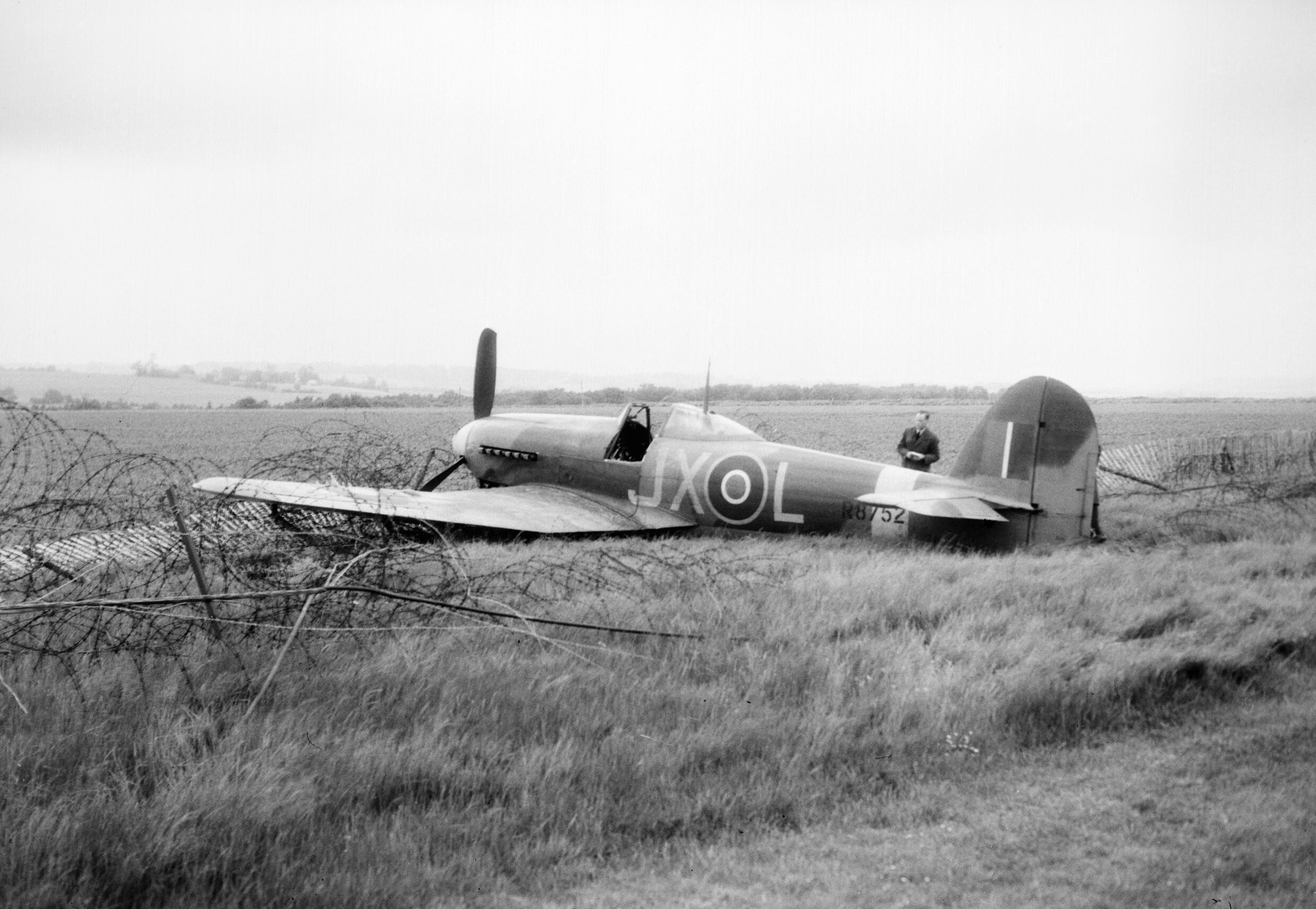 Royal Air Force 1939-1945- Fighter Command Typhoon IB R8752 of No 1 Squadron, written off after crash-landing in a field near its base at Lympne on 2 June 1943. Flight Sergeant W H Ramsey hit a telegraph pole over France, but managed to bring his badly damaged aircraft home.